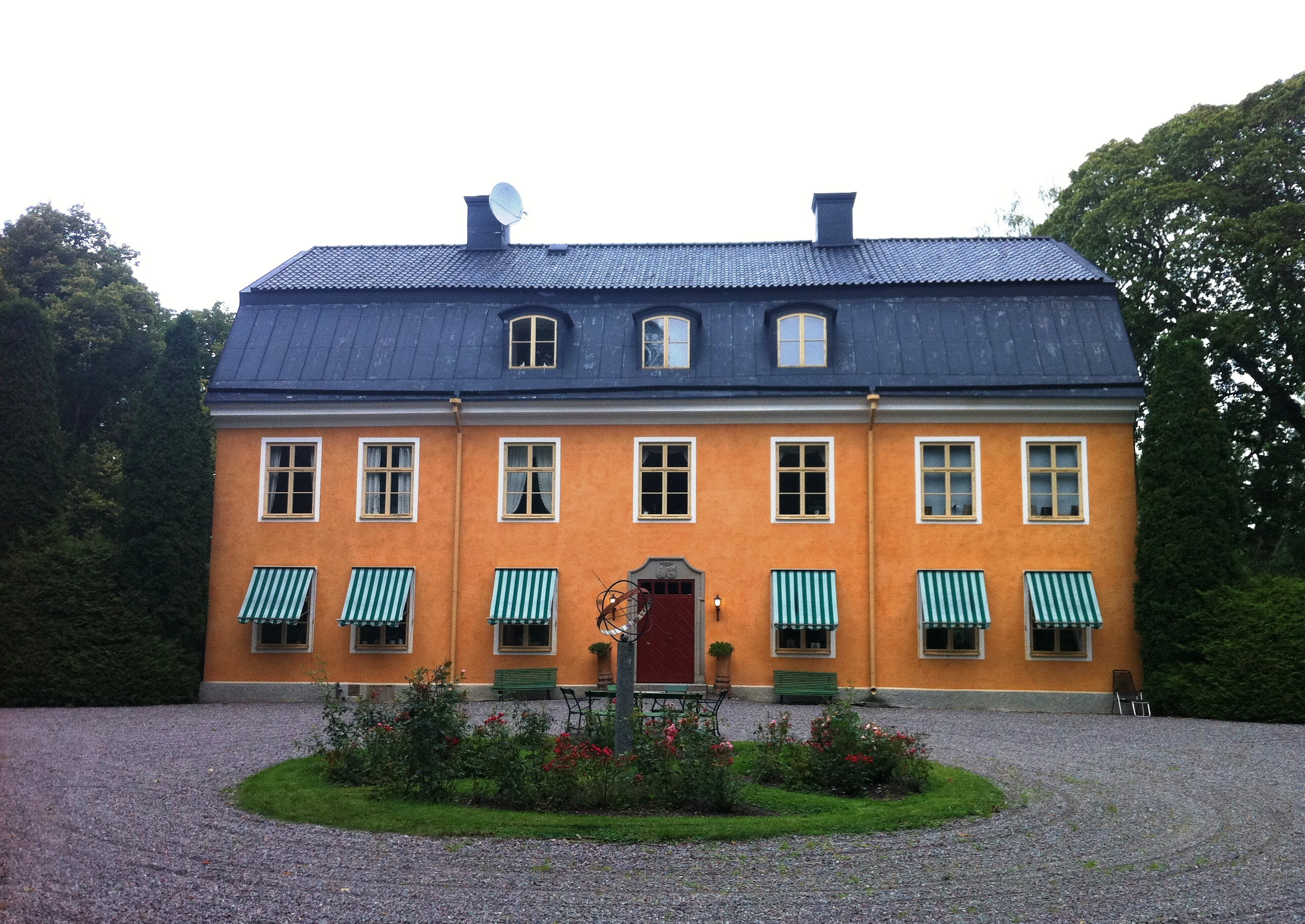 Mansion Signhildsberg, Upplands-Bro municipality, Sweden